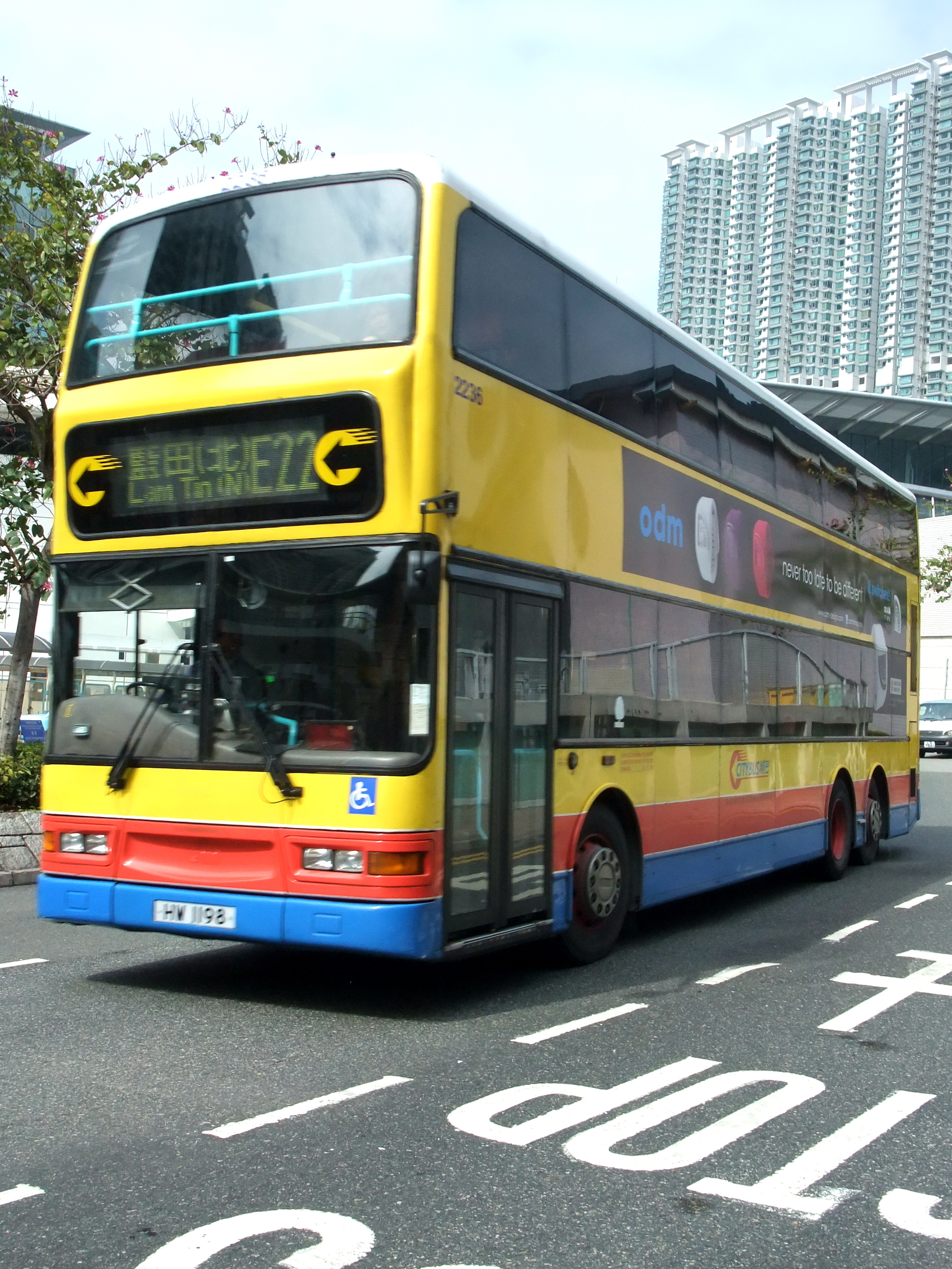 A Dennis Trident 12m bus serving Citybus Route E22 (HW1198)